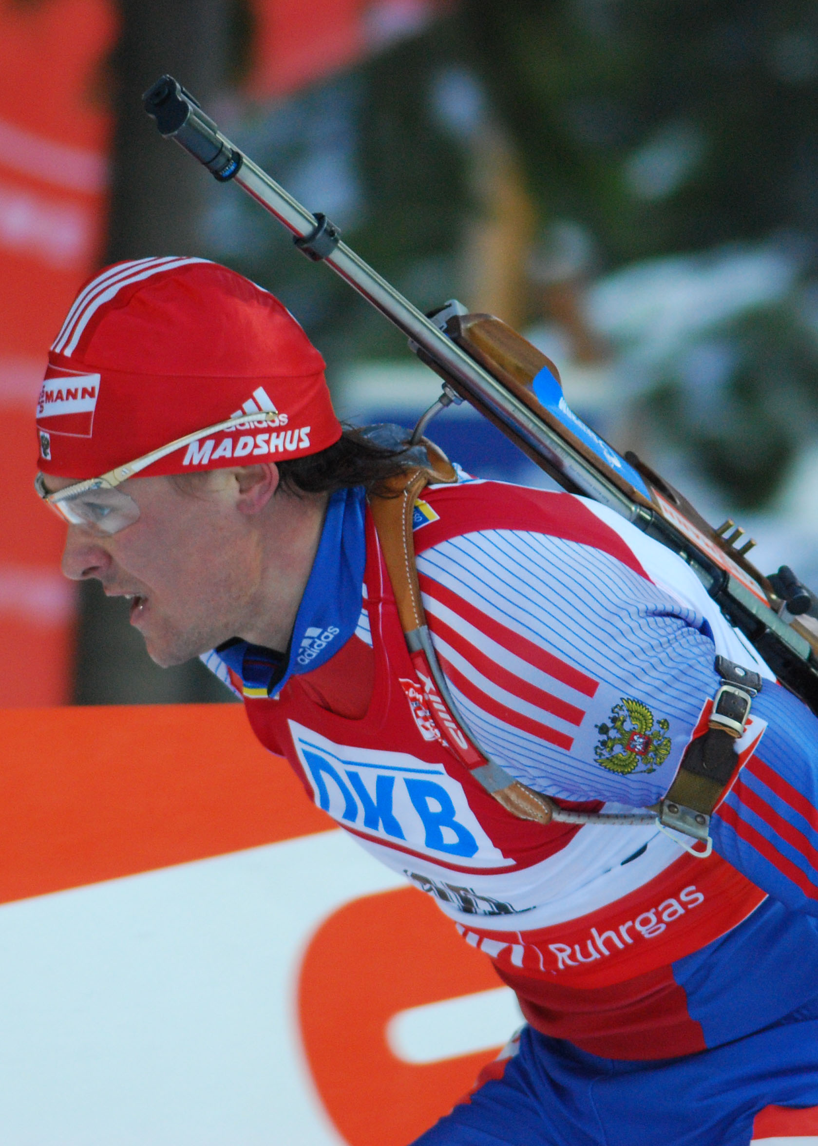 Russian biathlete Dmitri Yaroshenko during the World Championships in Östersund 2008 (cropped version).